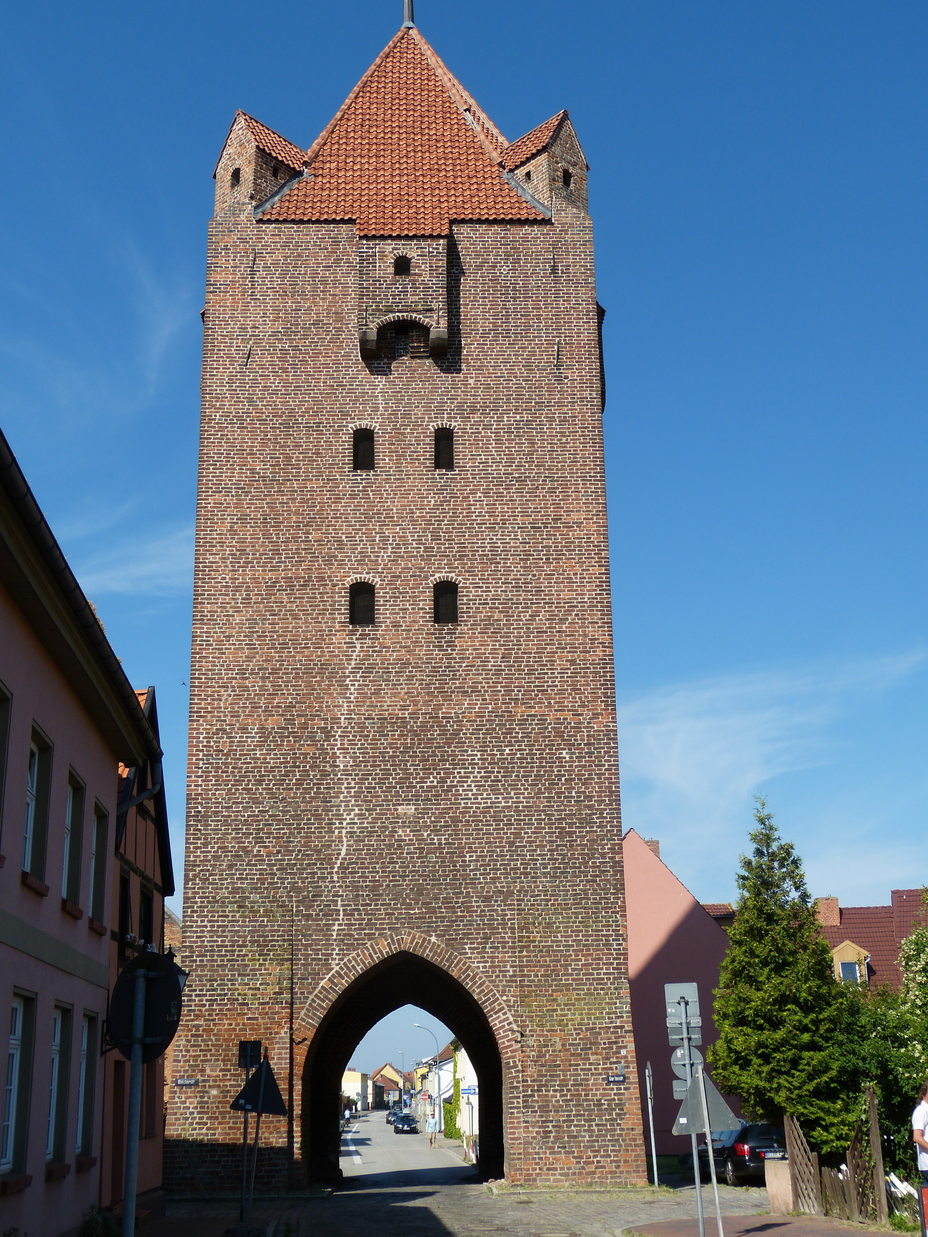 Barth ( Western Pomerania ). Dammtor city gate ( 1425 )